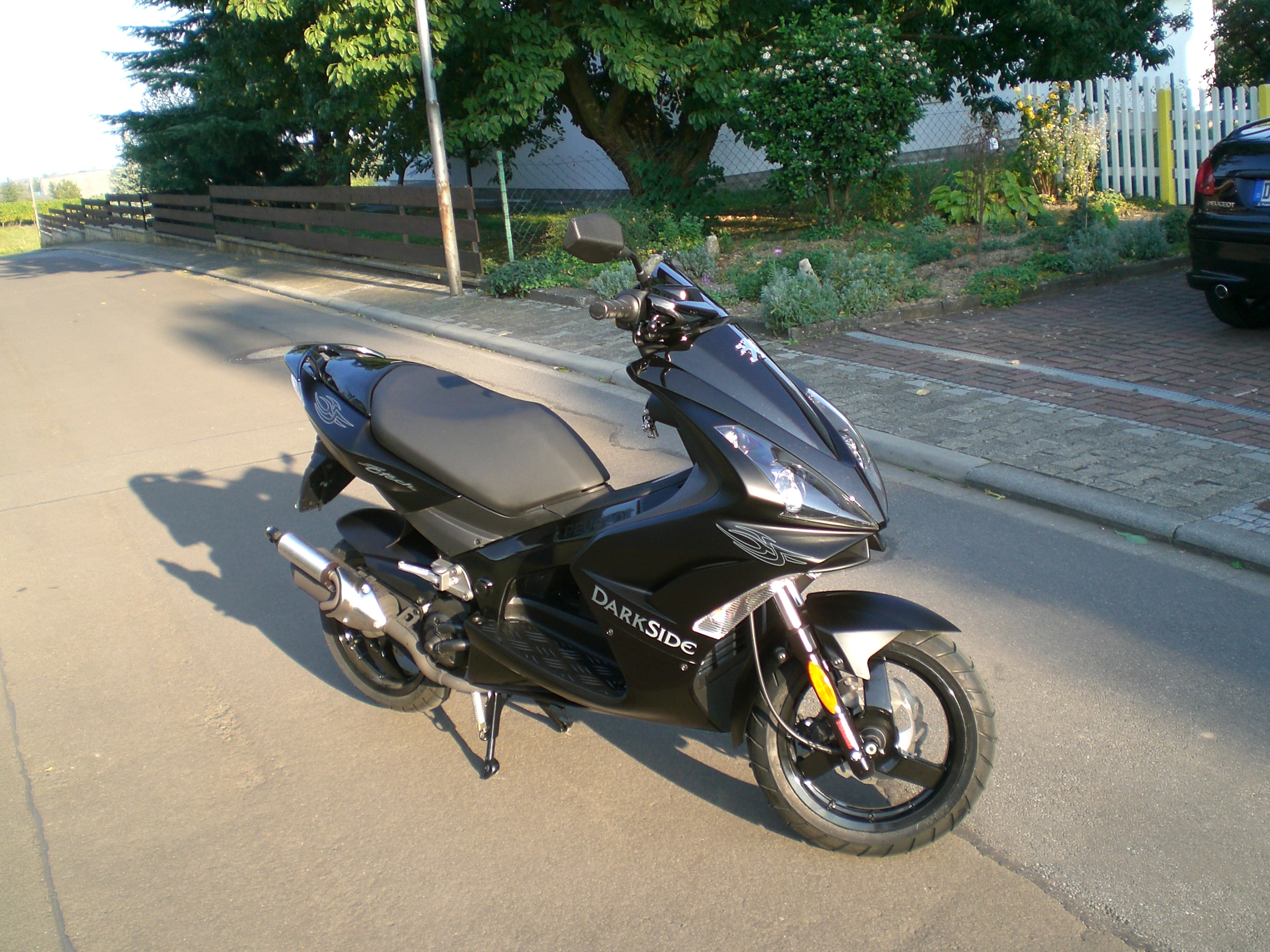 Peugeot Jetforce Darkside edition. New and unchanged, as received from dealer.